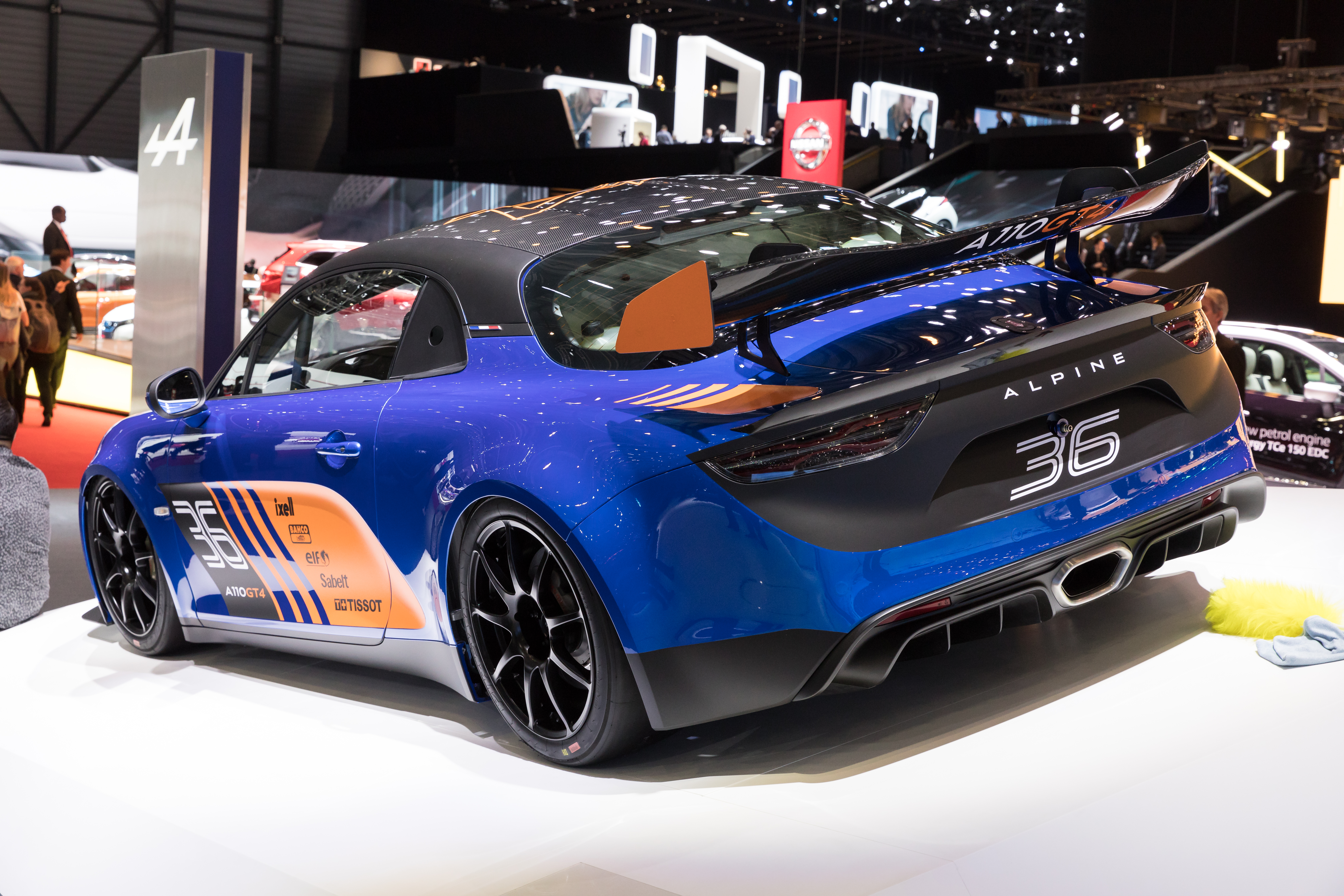 Alpine A110 GT4 at Geneva International Motor Show 2018